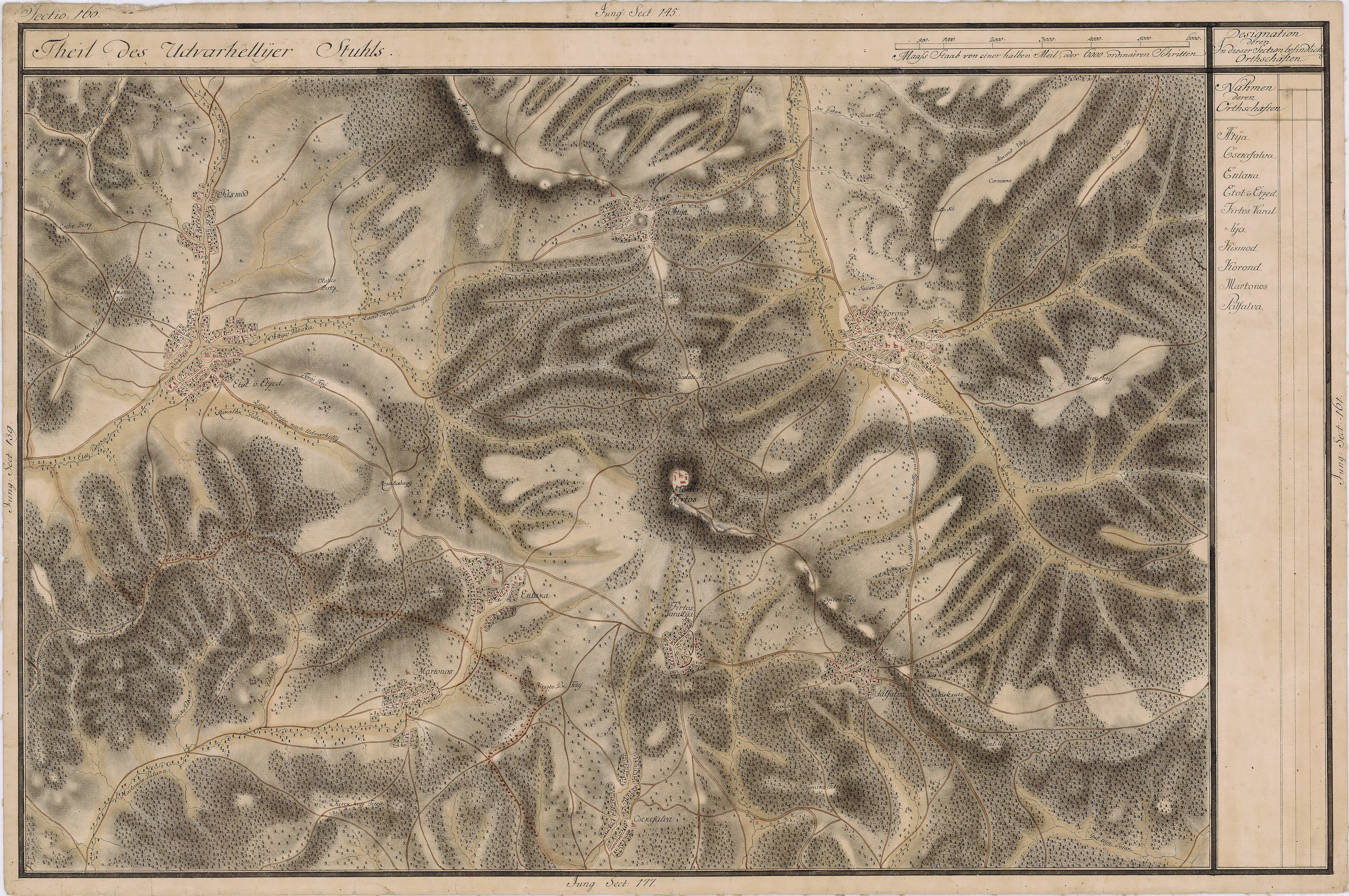 Grand Duchy of Transylvania, 1769-1773. Josephinische Landaufnahme pg.160